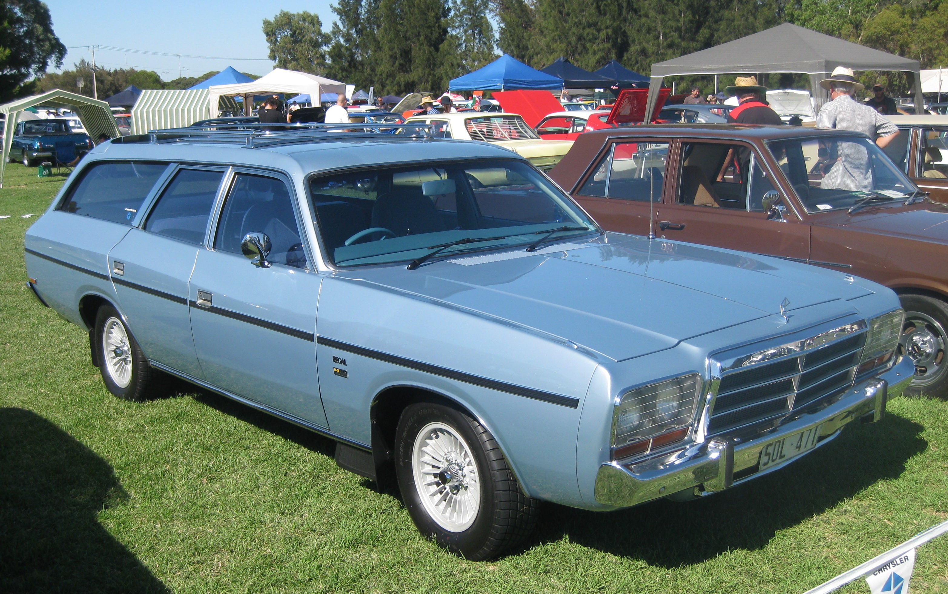 Chrysler CM Regal Wagon (1978-1981)